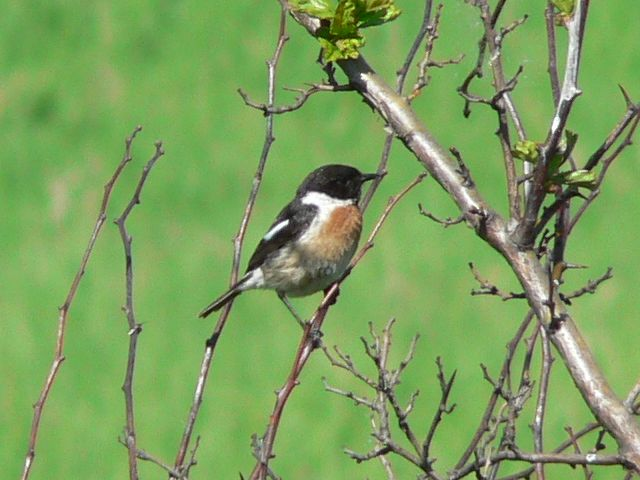 European Stonechat